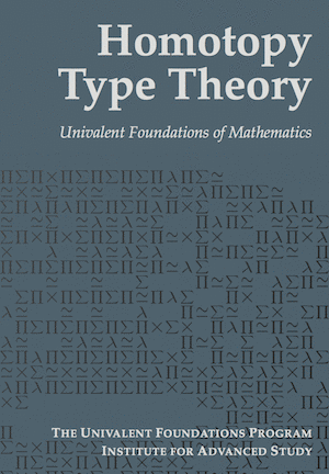 Cover of Homotopy Type Theory book